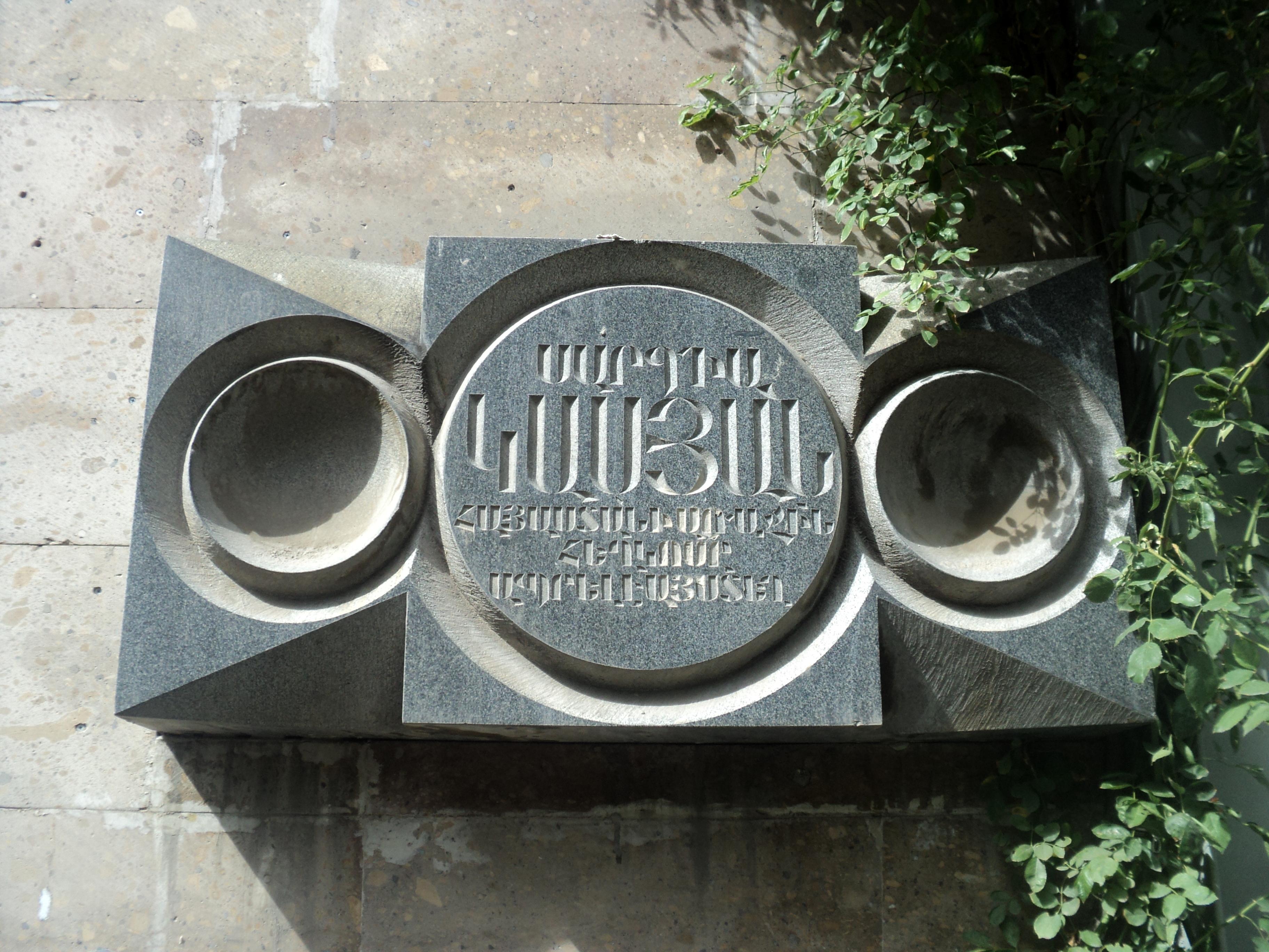 Sargis Kasyan's plaque on Abovyan street, Yerevan